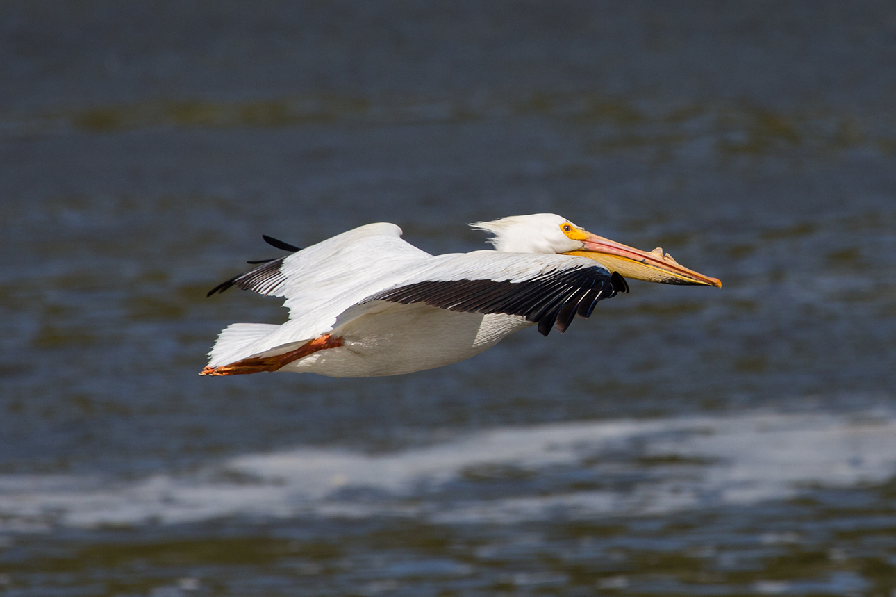 Пеликан в планирующем полете